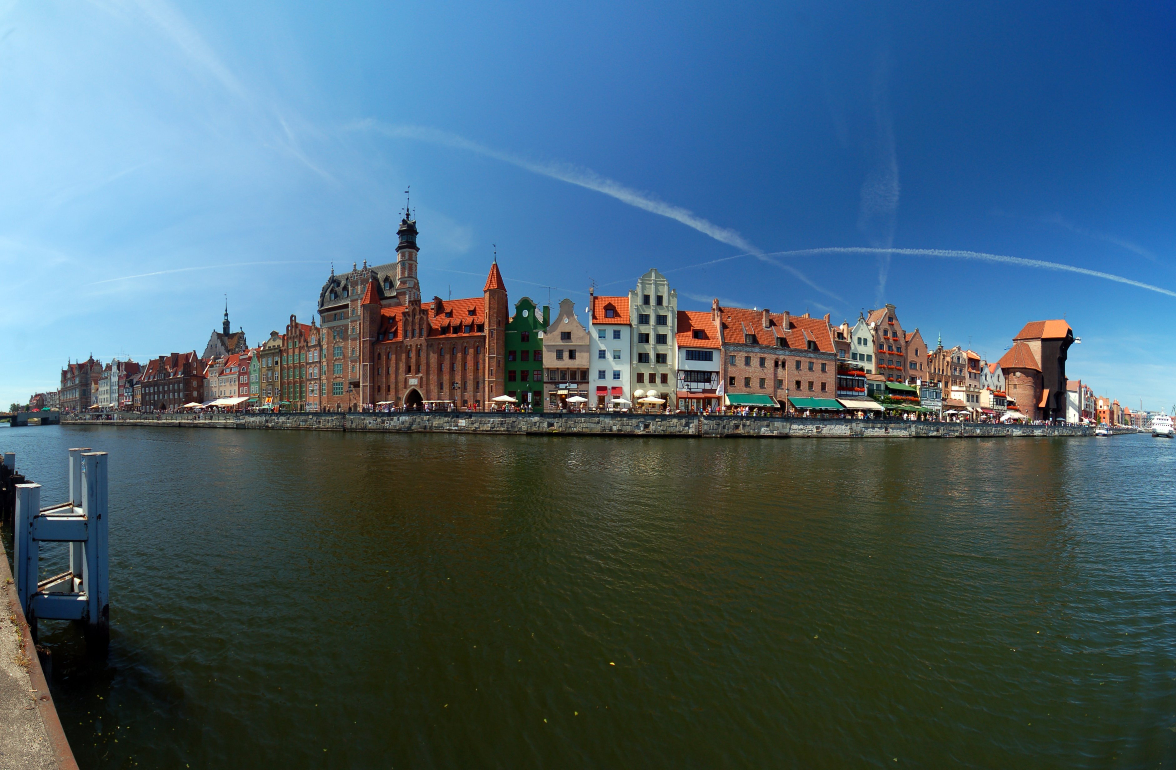 Picture taken in Gdańsk after Wikimania 2010 conference.